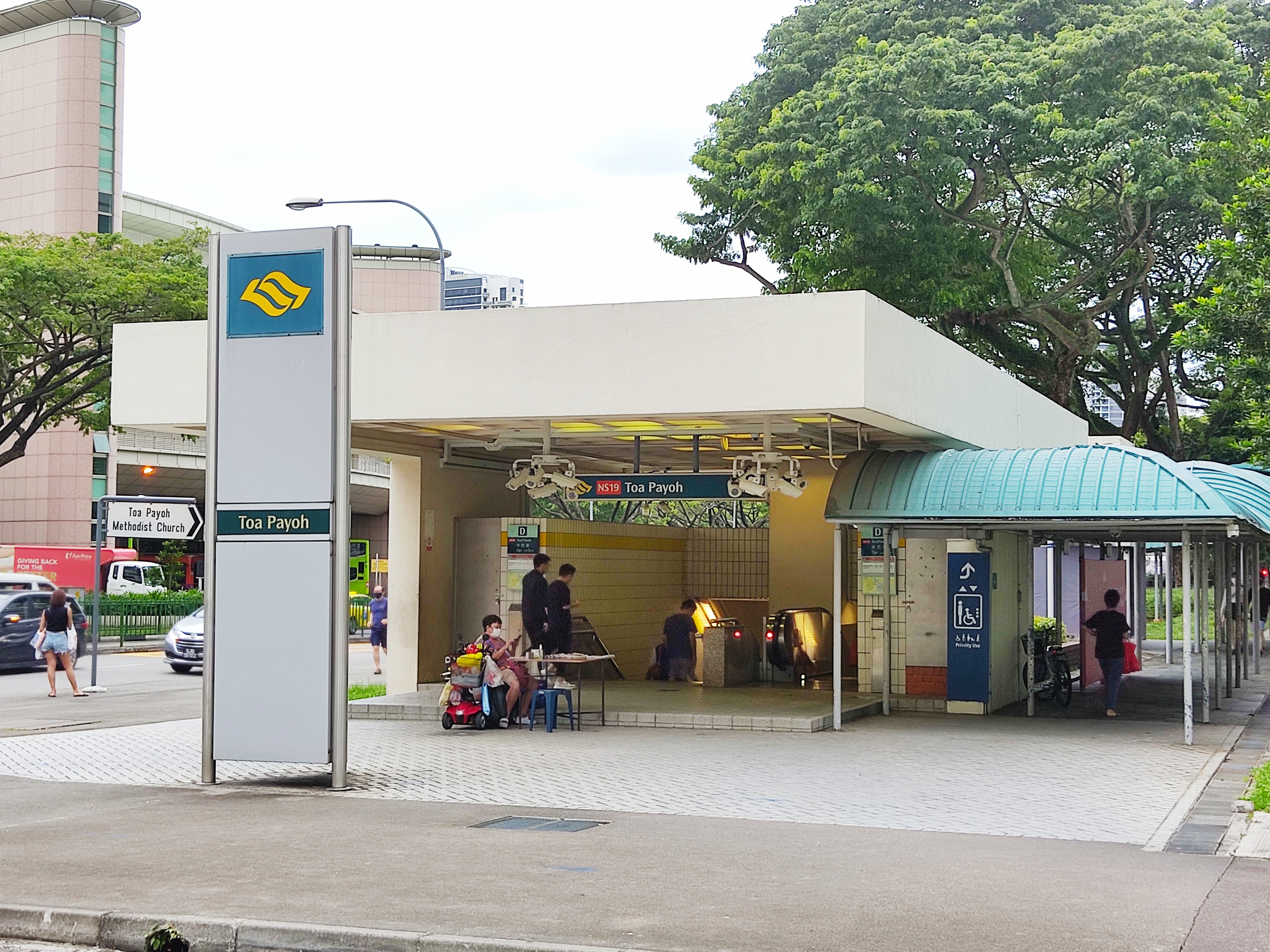 Exit D of Toa Payoh station